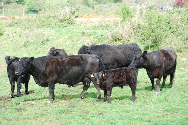 Gwartheg Duon Cymreig - Welsh Black Cattle Wales' native cattle - a "family group" near Penmaenpool.